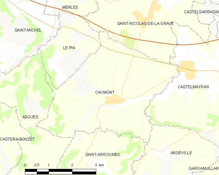 Map of French municipality Caumont